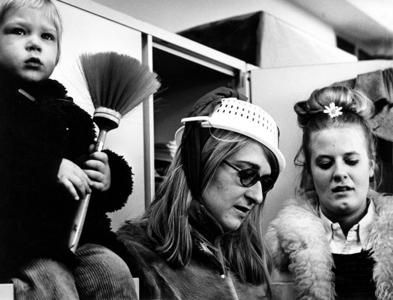 Dutch women's rights movement group "Dolle Mina". The Netherlands, 1970.